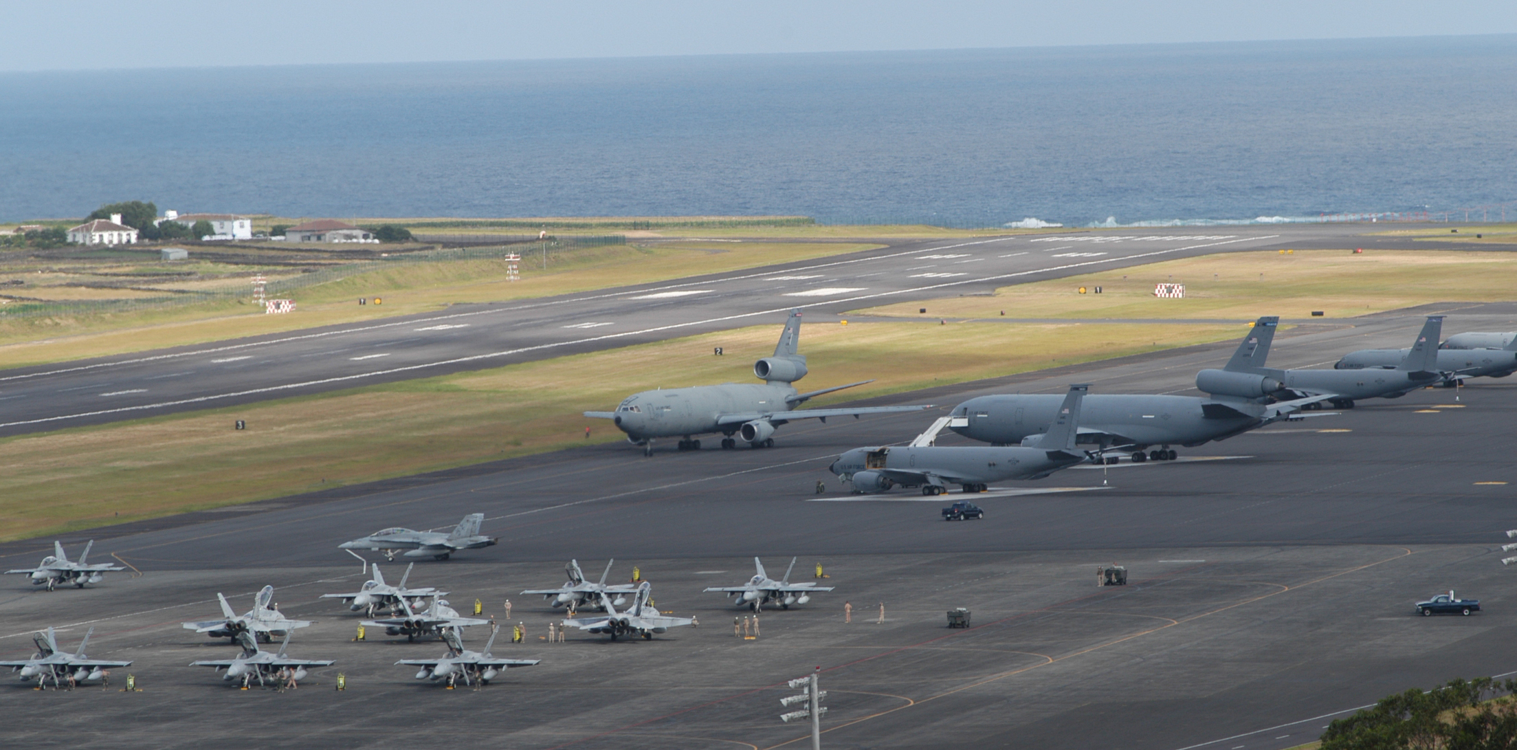 Lajes Field, Terceira Island, Azores, Portugal KC-135, KC-10 and F/A-18 aircraft on the tarmac. The 65th Air Base Wing is the American unit stationed at Lajes Field and it is the largest U.S. military organization in the Azores. The wing provides base and en route support for Department of Defense, allied nations and other authorized aircraft in transit, including those from the Netherlands, Belgium, Canada, France, Italy, Colombia, Germany, Venezuela and Great Britain. source